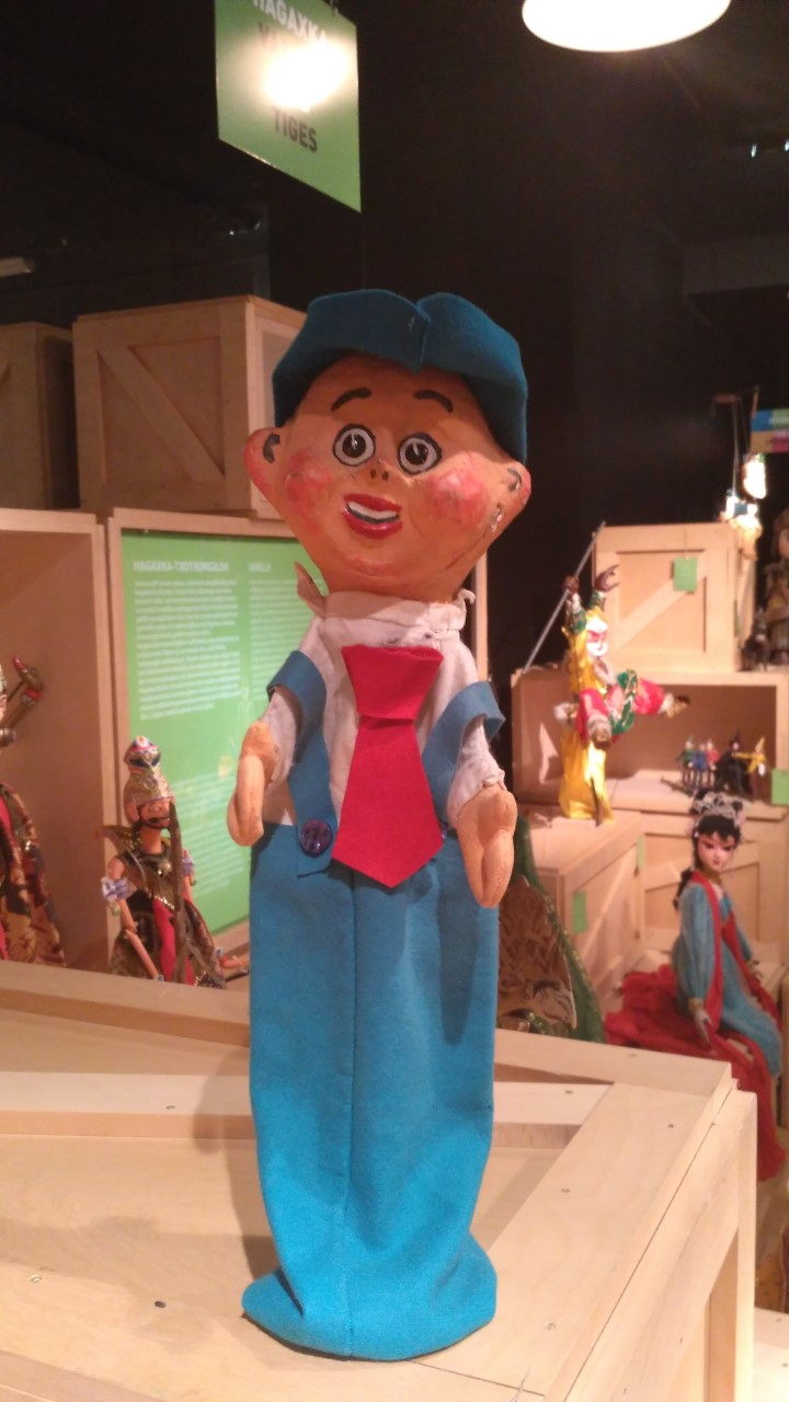 Kolorin txotxongiloa